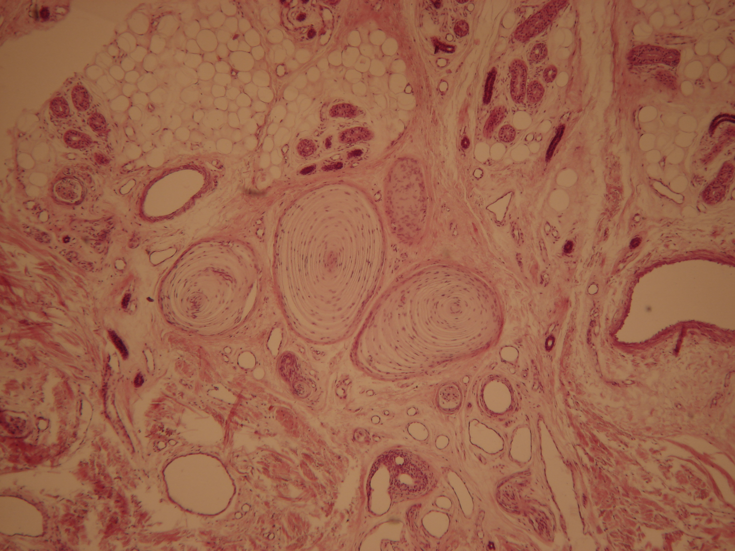 40x light micrograph of Pacinian corpuscle from WVSOM histo slide set